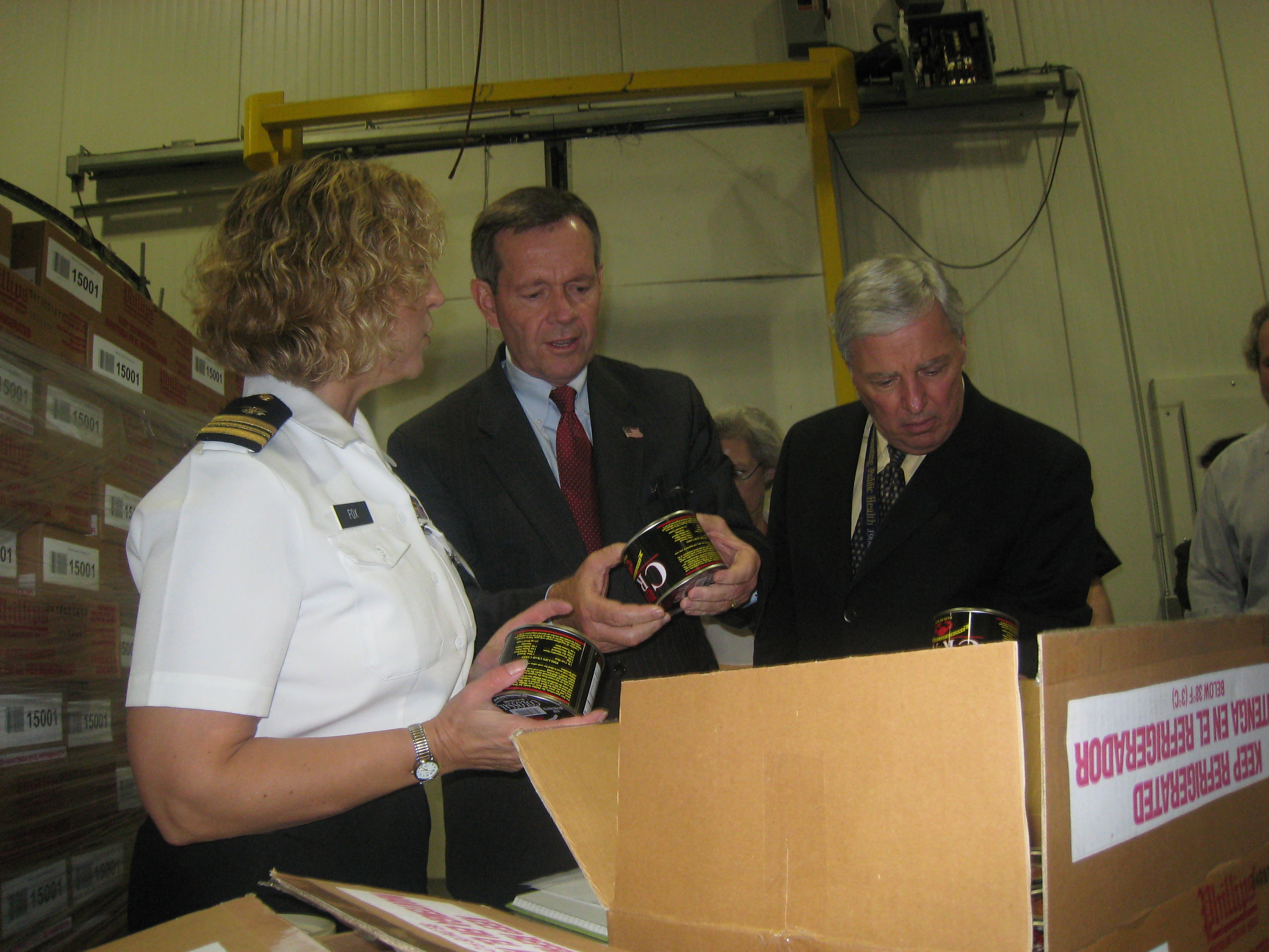 FDA Inspector LCDR Teresa Fox (USPHS) gives an overview of the seafood inspection process to HHS Secretary Mike Leavitt and FDA Commissioner Andrew von Eschenbach at Phillips Foods and Seafood Restaurants’ processing facility in Baltimore, MD., from the Outreach Activities section of the website of U.S. Department of Health and Human Services.